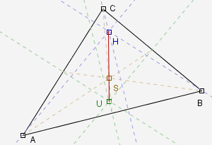 Euler line. Made with the software Compass and Ruler (C.a.R.).